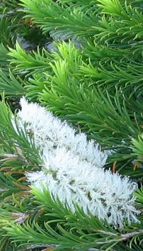 Melaleuca armillaris near the coas at Coogee, Sydney. Taken by myself on 10 October 2006.